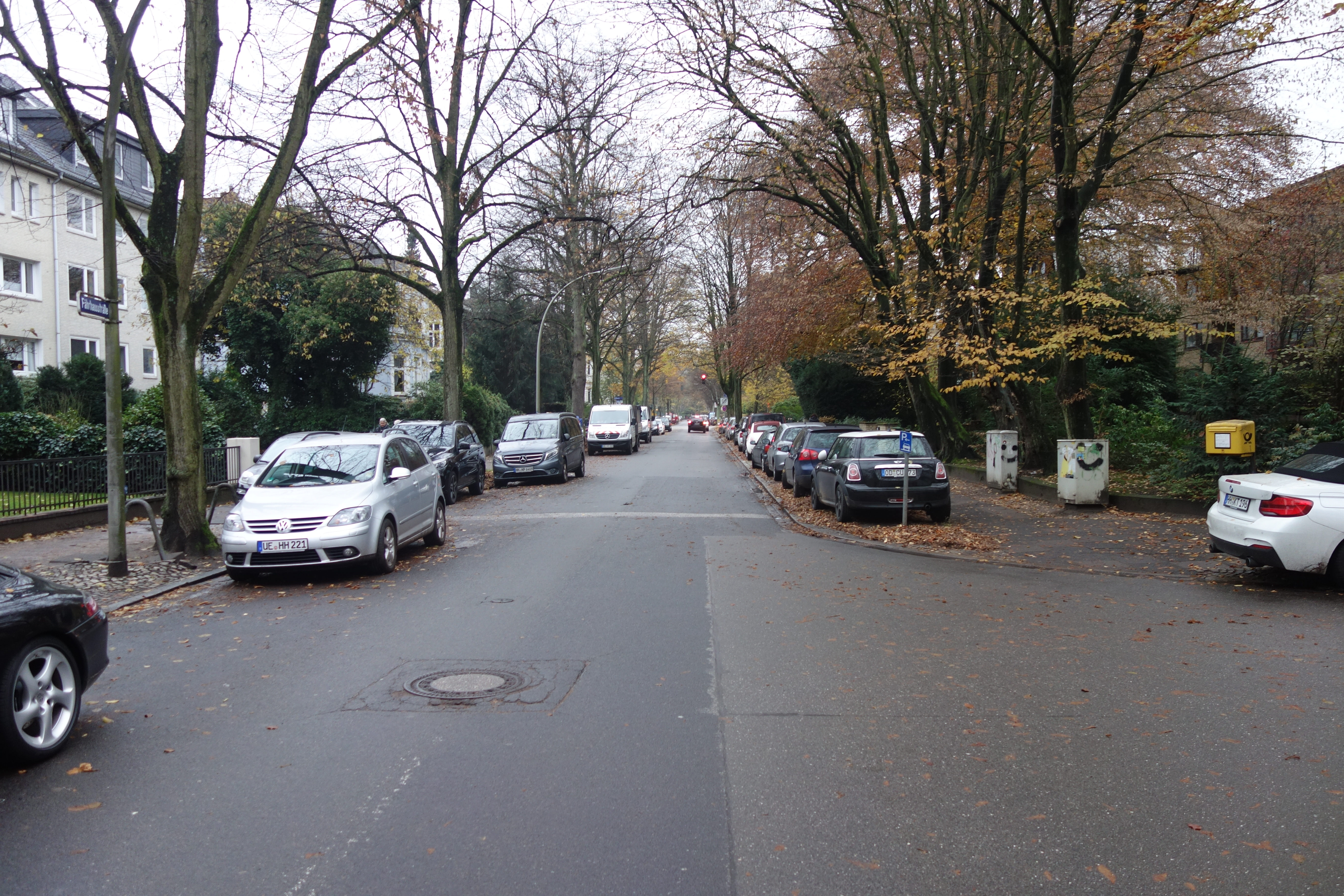 Street in Hamburg.